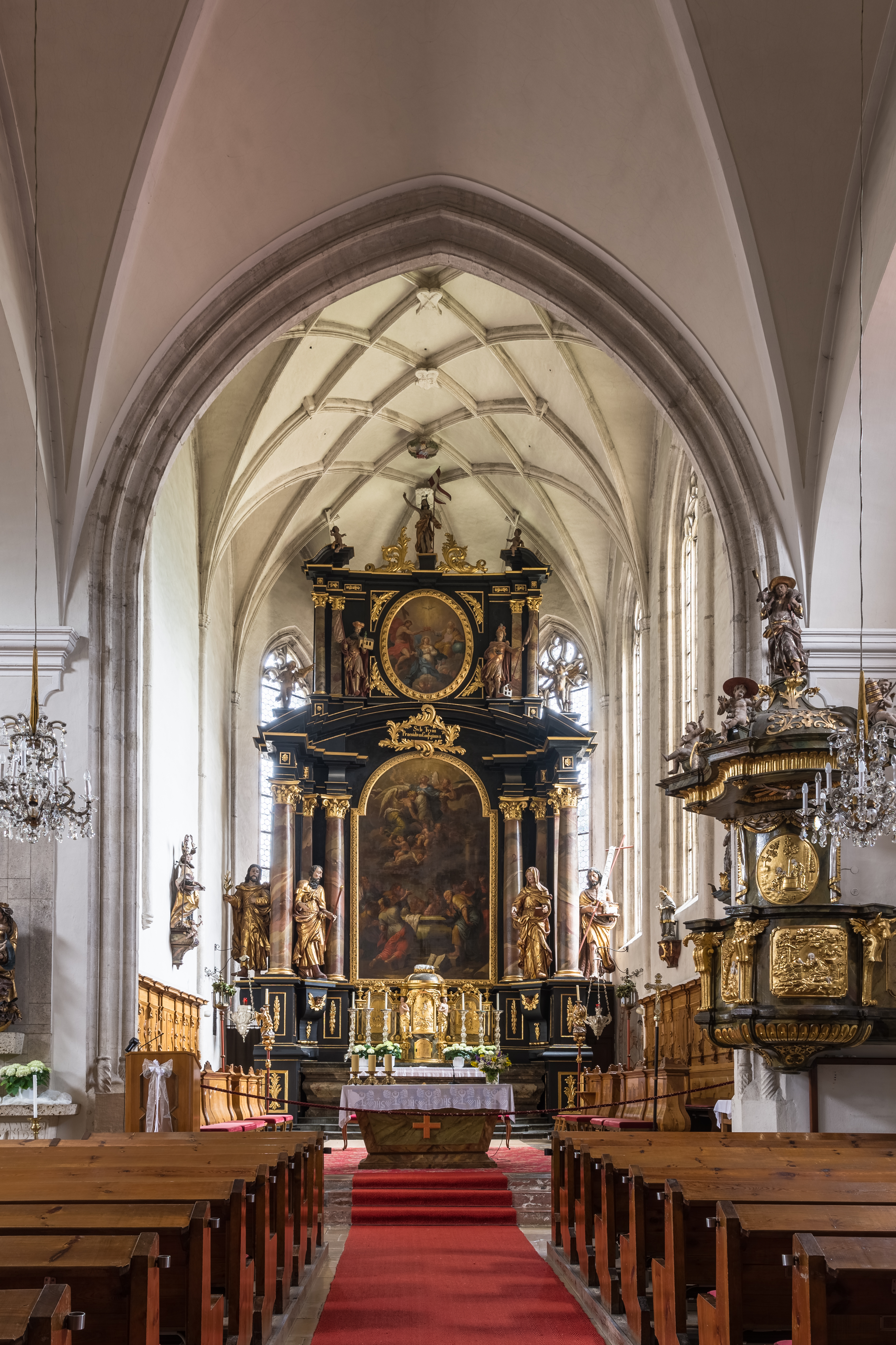 Interior of the parish church Weißenkirchen in der Wachau, Lower Austria